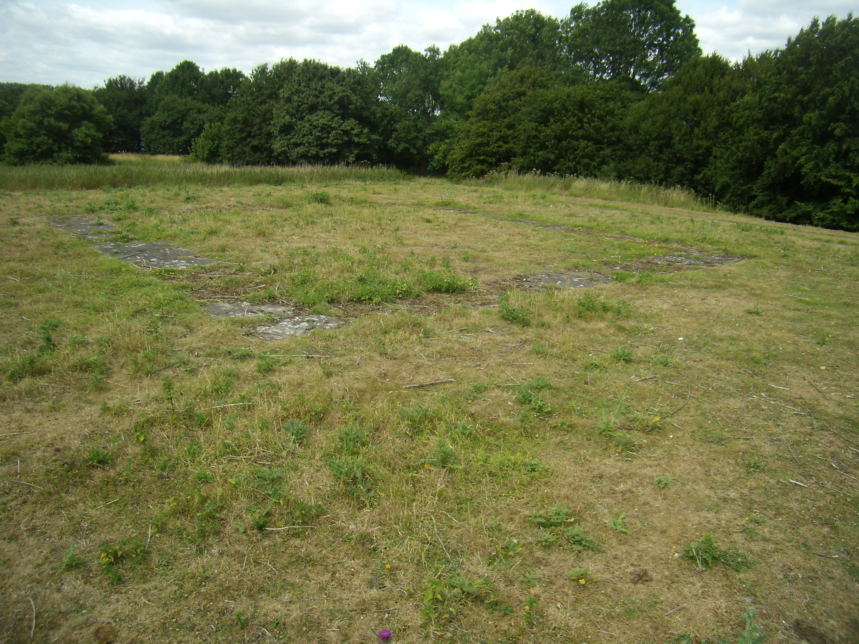 Harlow, the remains of a Roman temple, outlined in a park